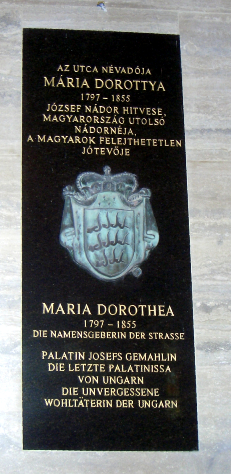 Memorial board of Duchess Maria Dorothea of Württemberg, wife of Archduke Joseph, Palatine of Hungary, Palatine of Hungary. Site: Budapest, 5th district, Dorottya street No 2 (on corner of the Vörösmarty Square).